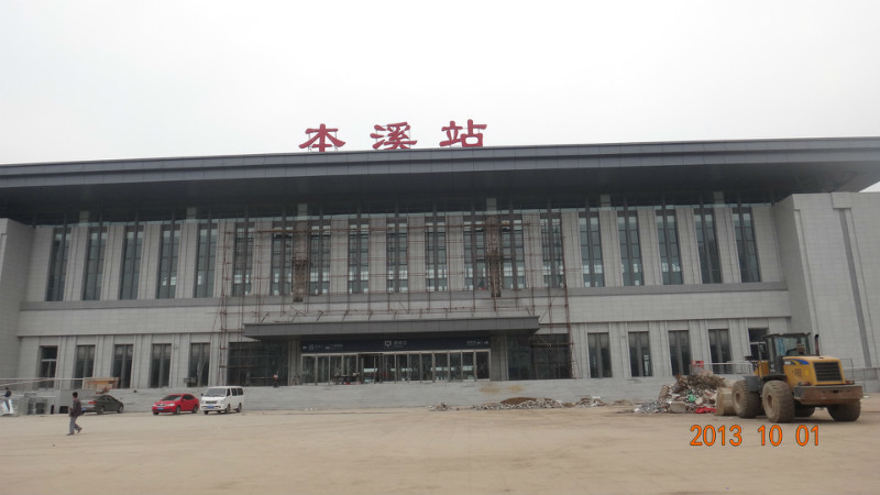 Benxi Railway Station